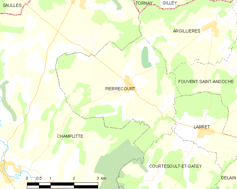 Map of French municipality